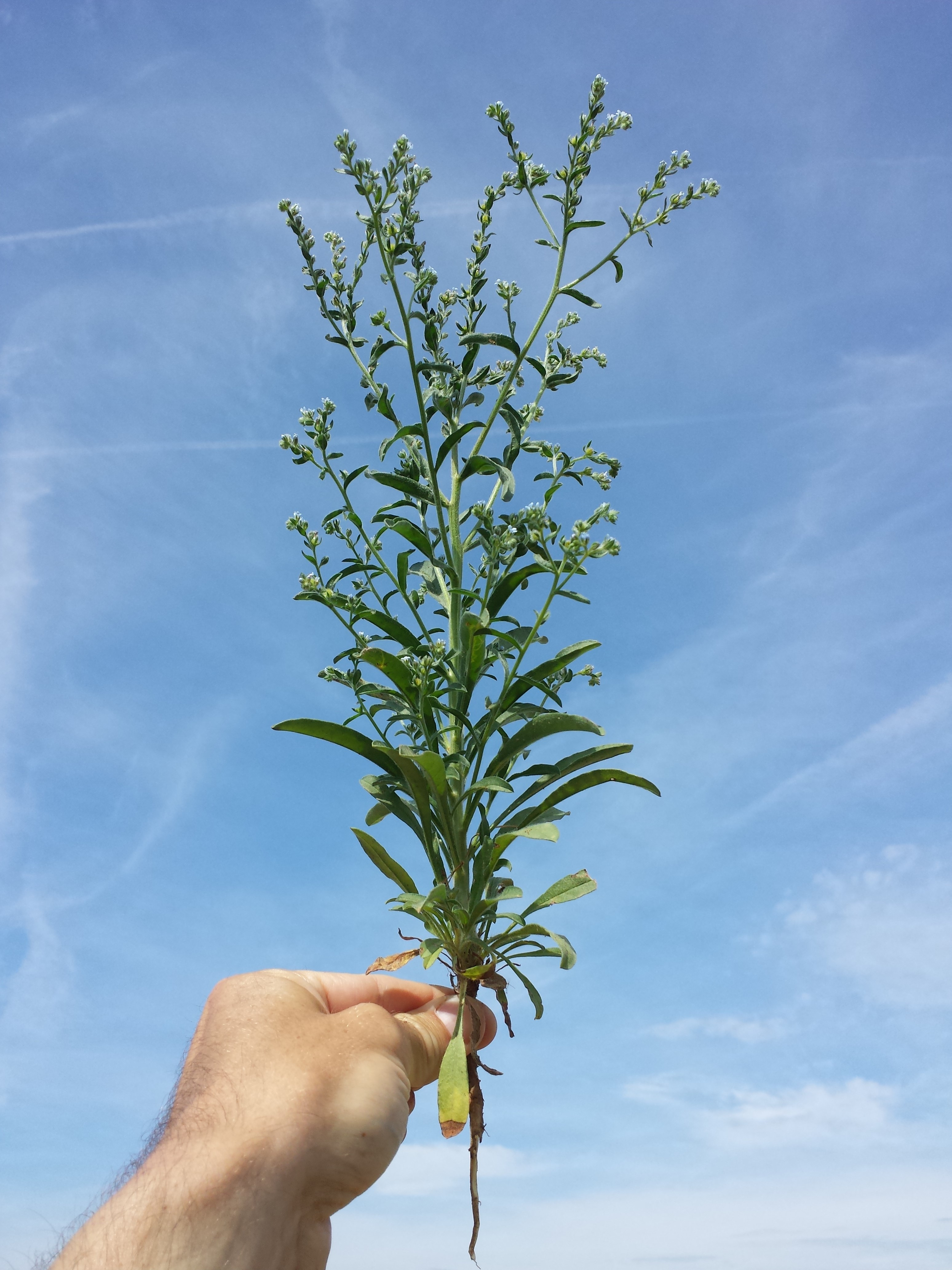 Habitus Taxonym: Lappula squarrosa ss Fischer et al. EfÖLS 2008 ISBN 978-3-85474-187-9 Location: next to Oberfellabrunn, district Hollabrunn, Lower Austria - ca. 350 m a.s.l. Habitat: wineyard